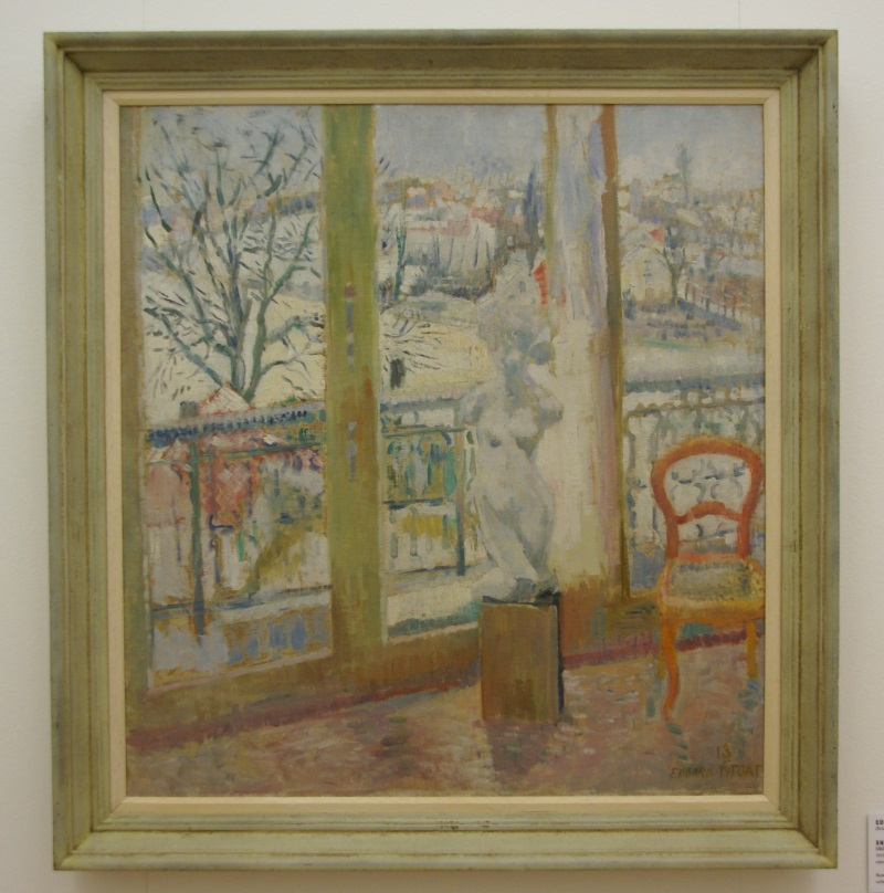 Oil painting by Edgard Tytgat titled "Snow effect in Watermael", 1913. In collection of Museum De Fundatie, Zwolle, The Netherlands.